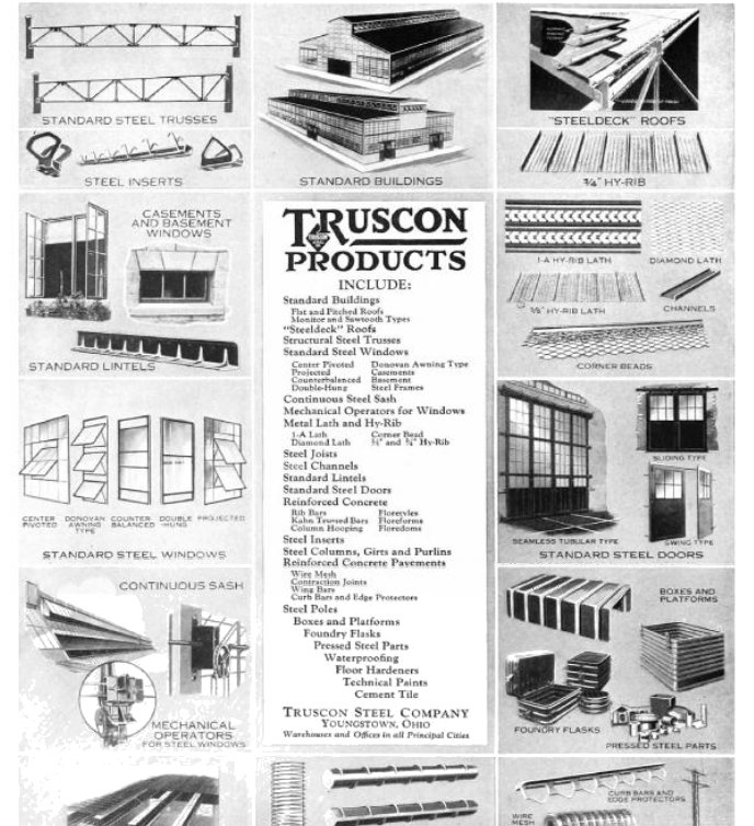 Truscon products 1918